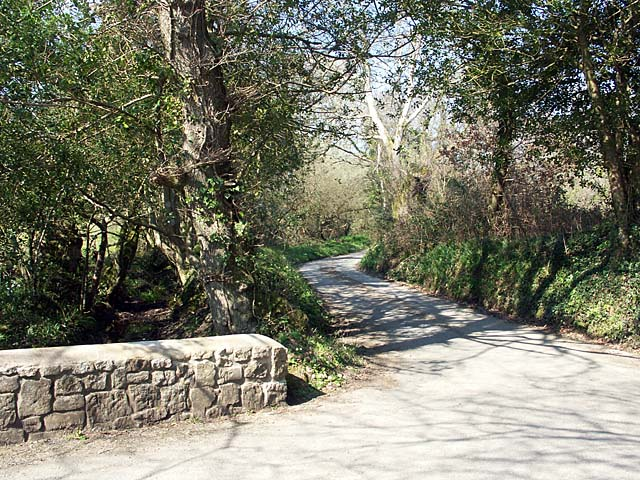 Part of the bridge and road at Frogmore, St Erme, Cornwall near England